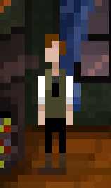 Jeremiah Devitt character using the assets from here released to Commons.